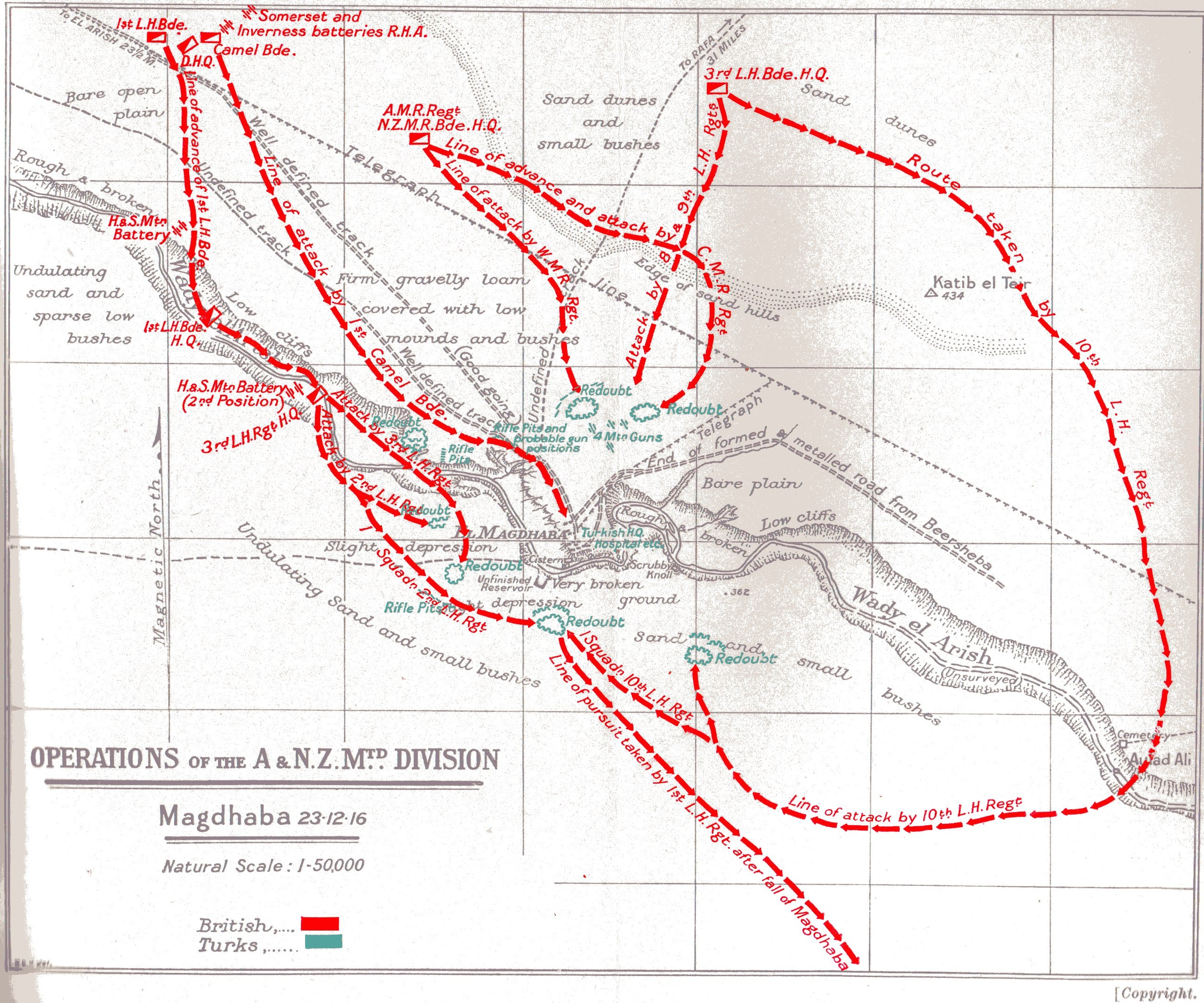 Map showing operations of the Australia and New Zealand Mounted Division at the Battle of Maghdaba, 23 December 1916.